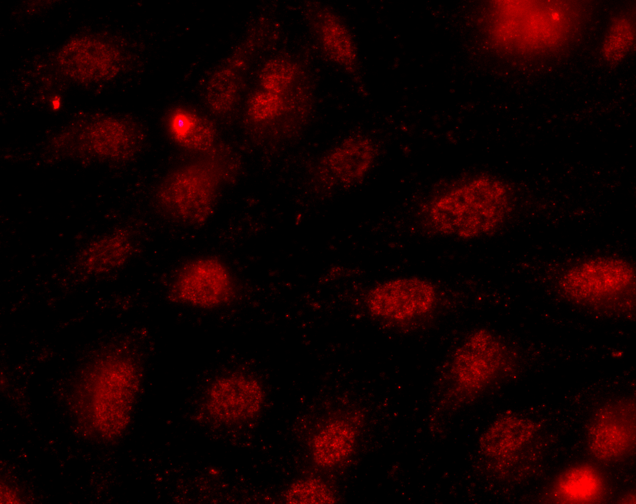 HIF1a red,accumulation in nucleus of endothelial cells